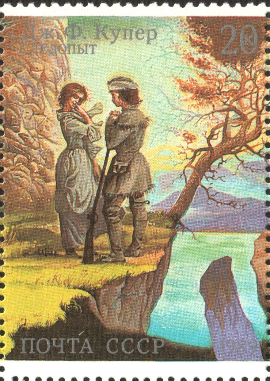 A USSR stamp